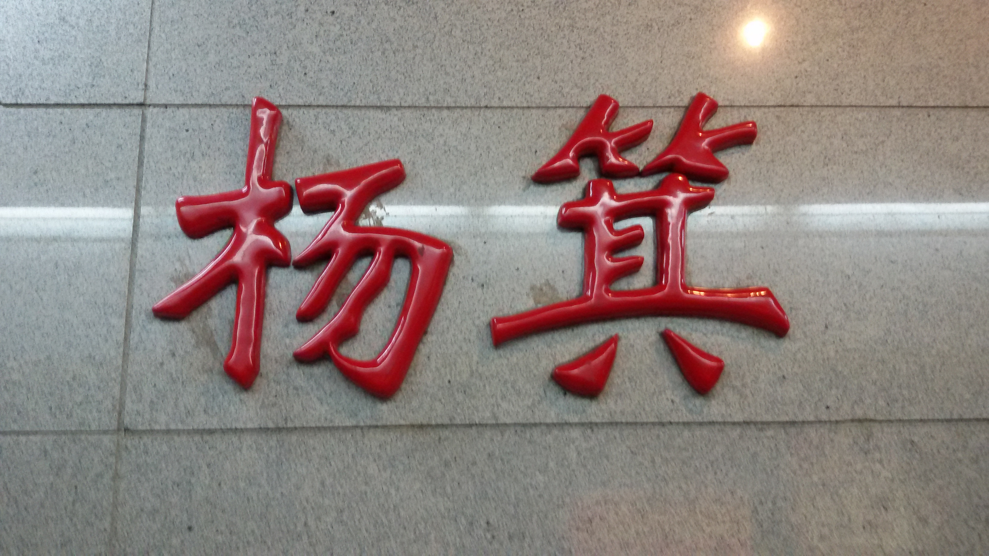 Station Name for Yangji Station, Line 1